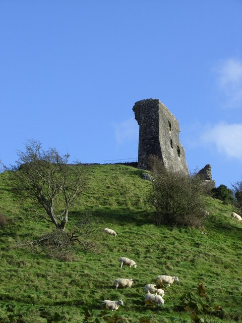 Dryslwyn Castle and sheep